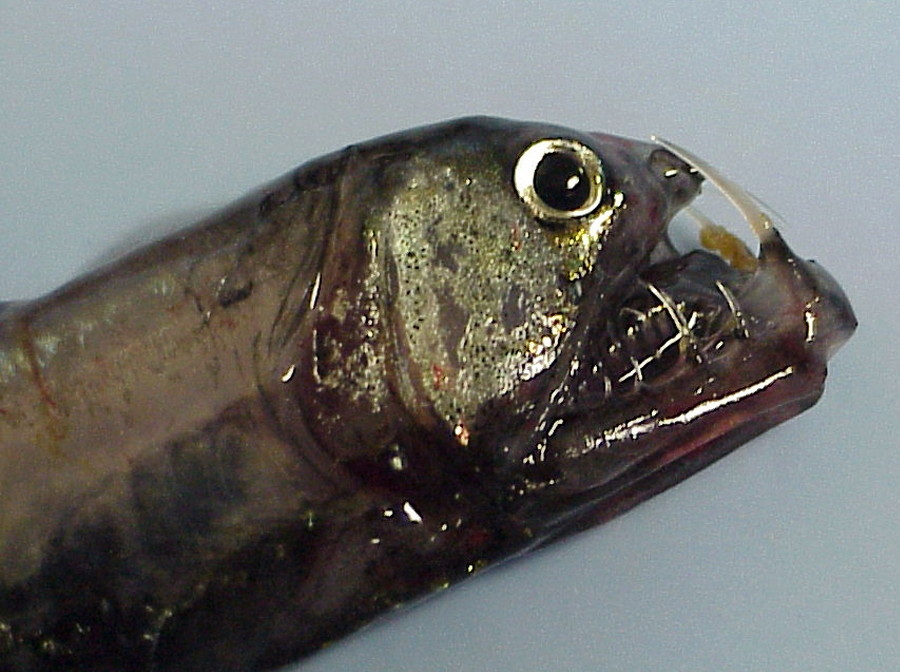 Head of a pacific Viperfish caught during trawling operations. Image ID: fish4036, NOAA's Fisheries Collection Location: Alaska, Southeast Photo Date: 2001